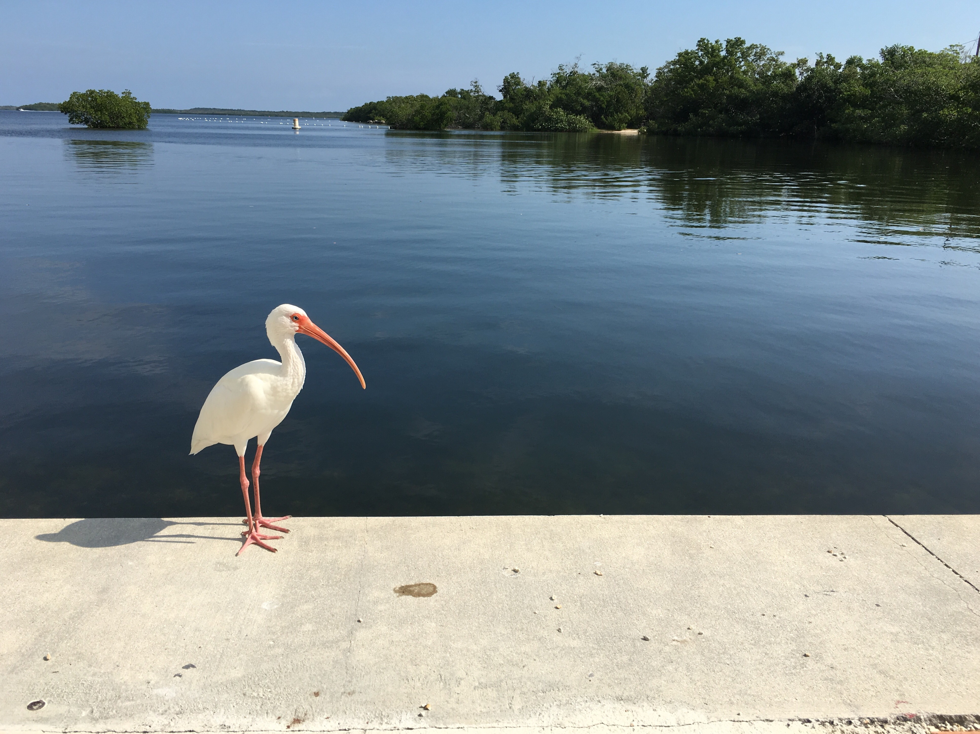 An ibis on the waterfront of Largo Sound at John E. Pennekamp Coral Reef State Park on 2018-11-26.